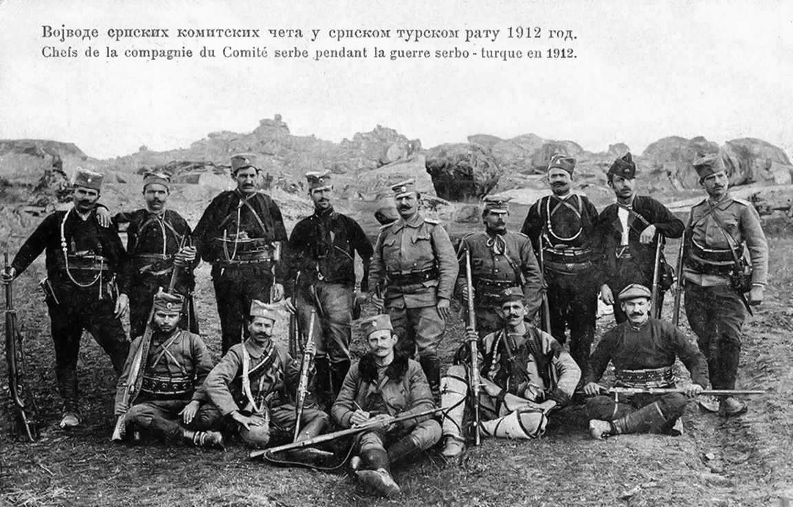 Vojin Popović "Vojvoda Vuk", the supreme Chetnik commander, in the center with his sub-commanders during the First Balkan War. Standing: Trenko Rujanović (?) Stevan Nedić-Ćela (2nd), Kosta Vojinović (4th), Vojvoda Vuk (5th), Ilija Trifunović-Birčanin (8th) Sitting